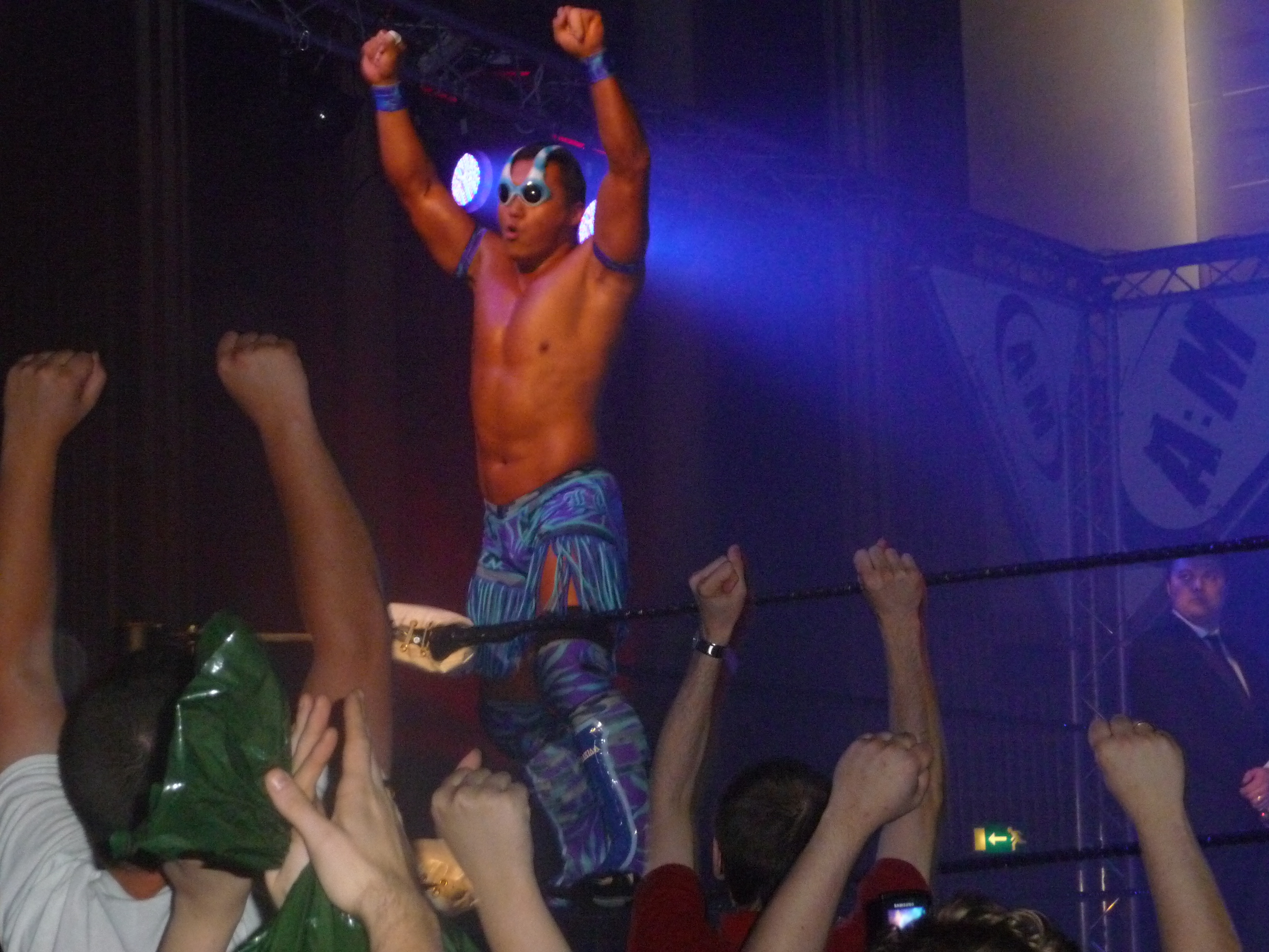 Professional wrestler CIMA posing on the turnbuckles at a Dragon Gate show in Oxford, England in November 2009.